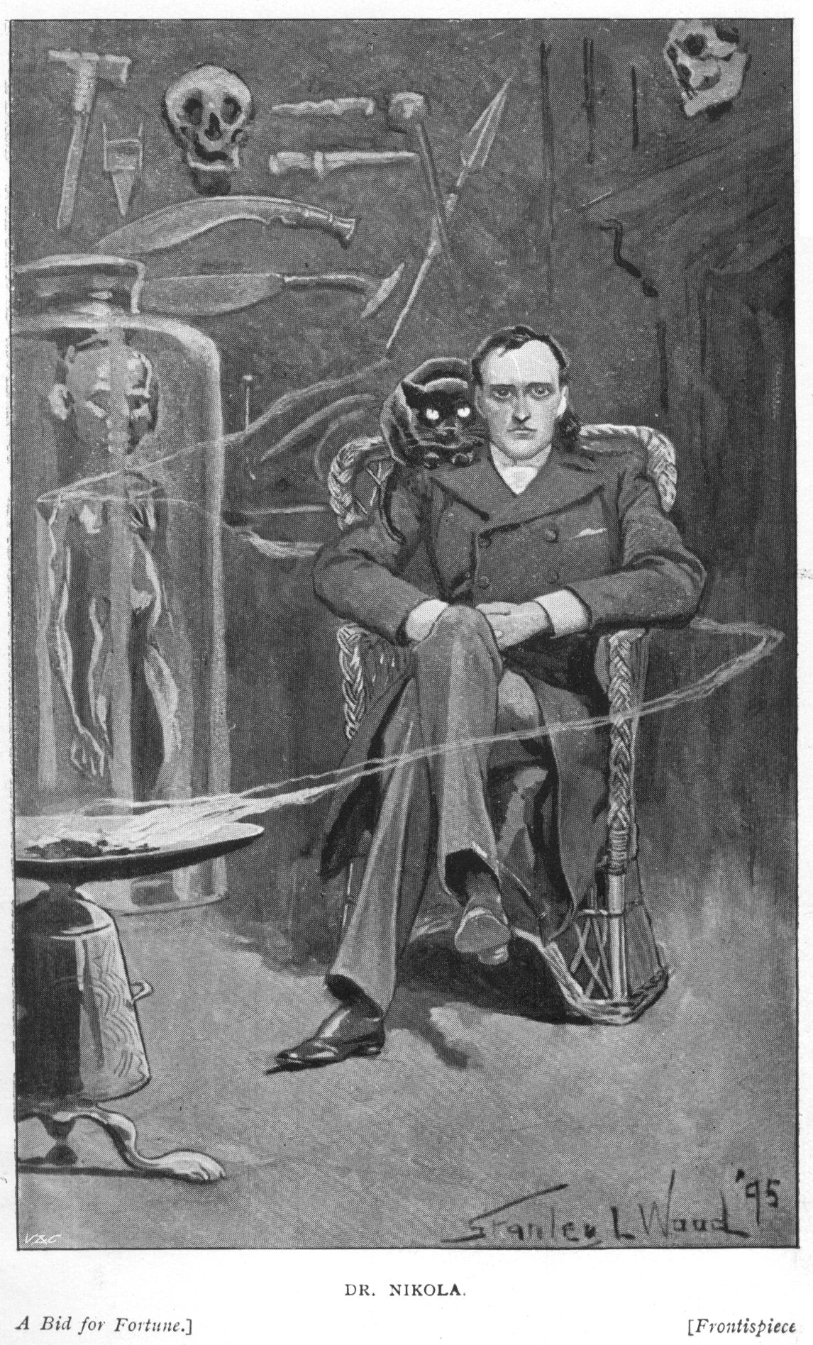 Frontispiece for A Bid for Fortune by Guy Boothby (1895) showing Doctor Nikola and cat